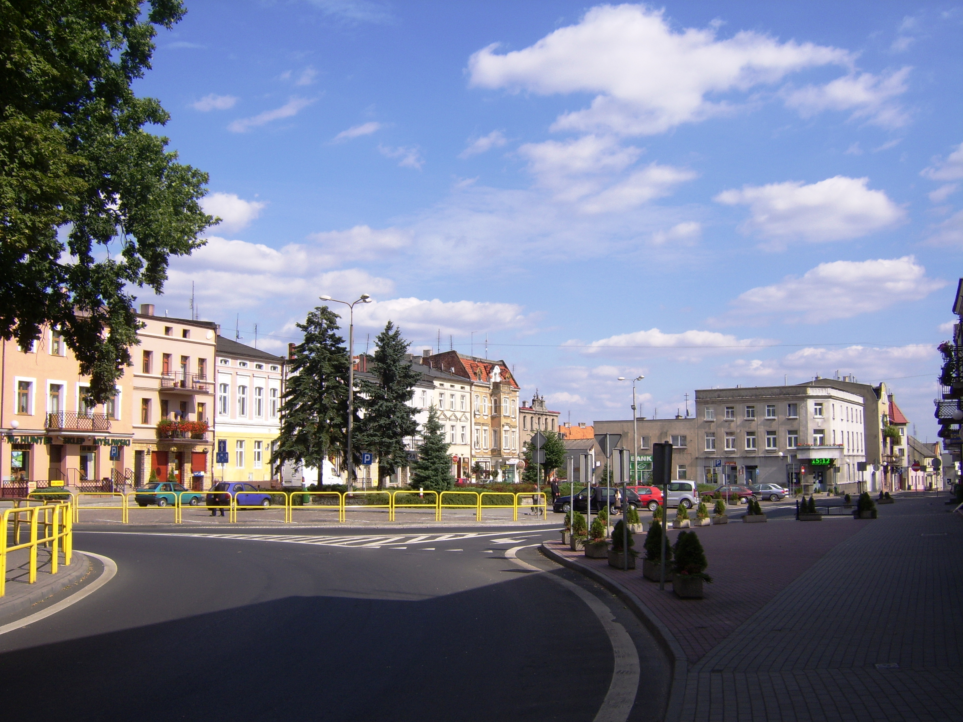 City Center Kowalewo Pomerania